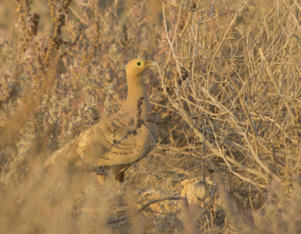 Desert habitat